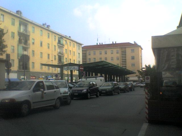 Piazza Roma (Rome Square) in Pinerolo